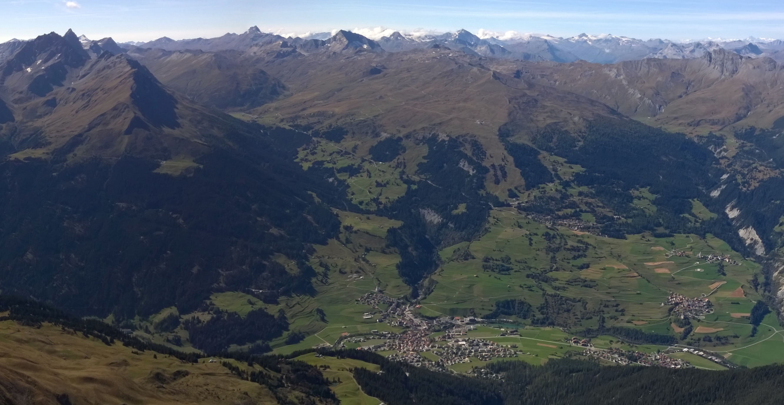 Val Nandro, picture taken from Piz Mitgel (Surses, Grison, Switzerland)